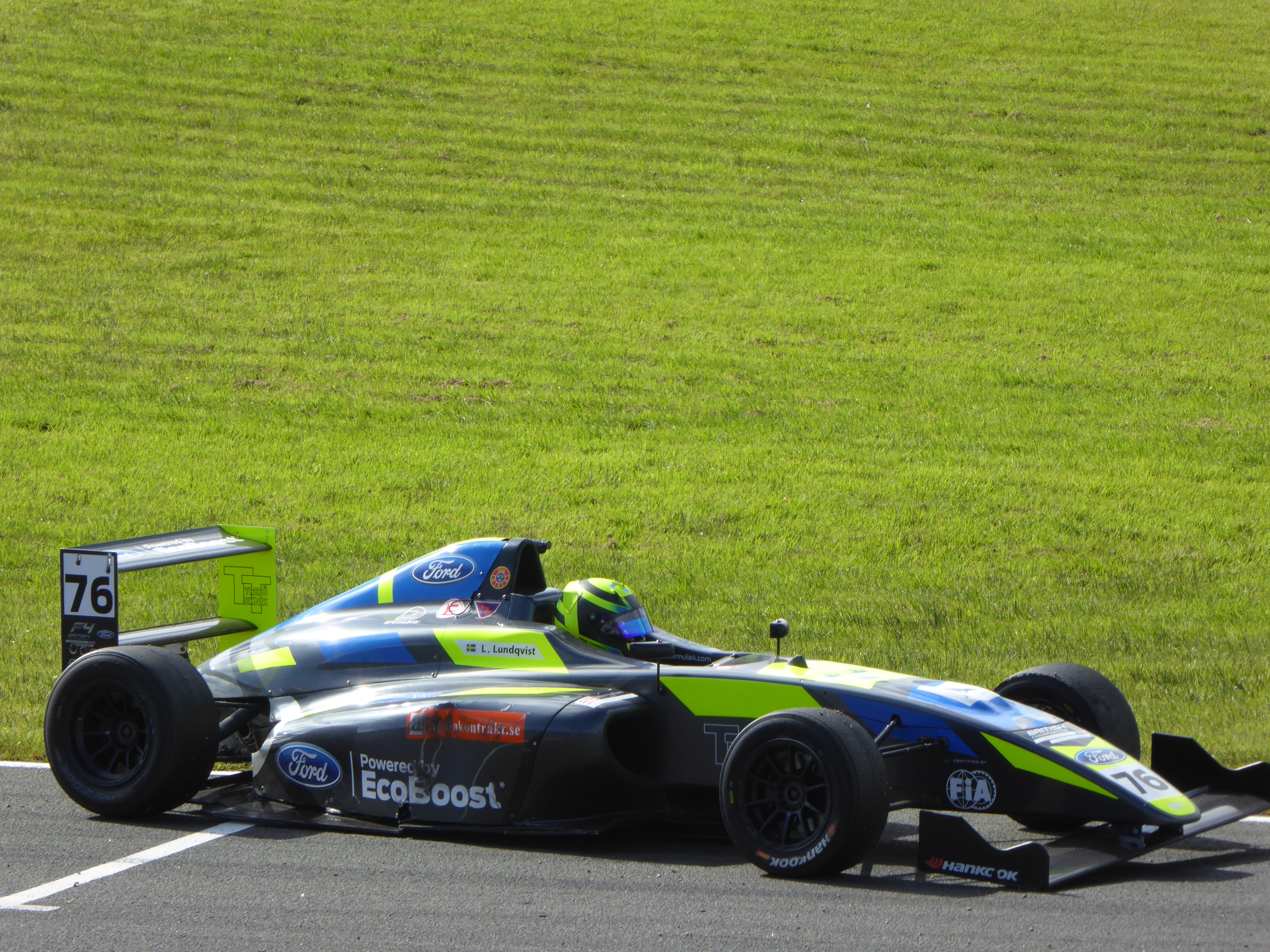 Linus Lundqvist (Double R Racing), at the Knockhill round of the 2017 British F4 Championship.